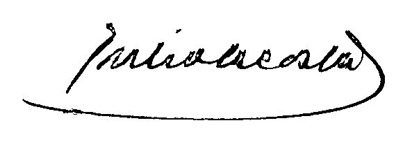 Signature of Julio Acosta García, President of Costa Rica (1920-1924)